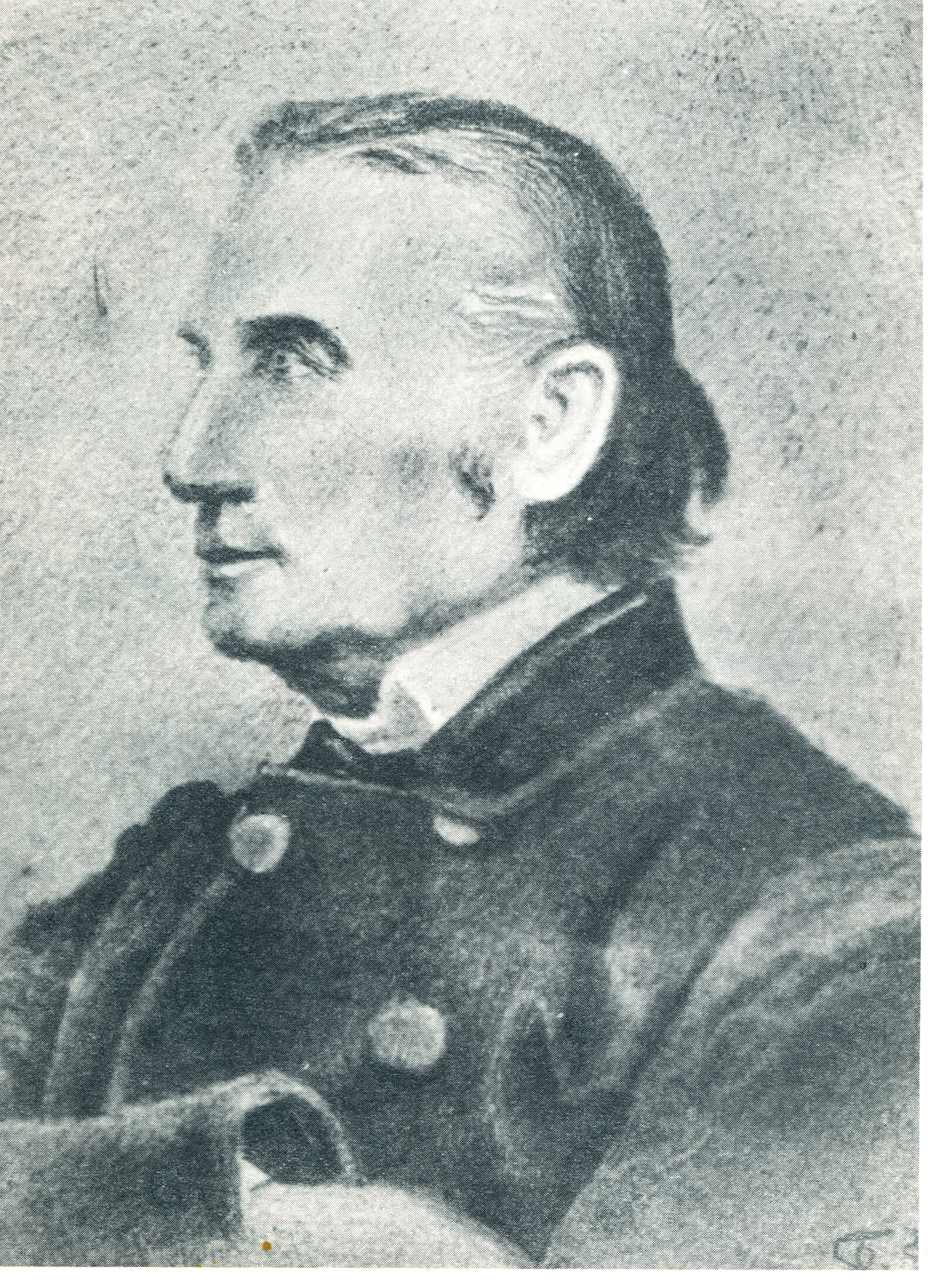 From Eichner, Karl, Wilhelm Löhe: ein Lebensbild von Karl Eichner. Mit einem Bildnisse Löhes. Nürnberg: G. Löhe's Buchhandlung, 1908.